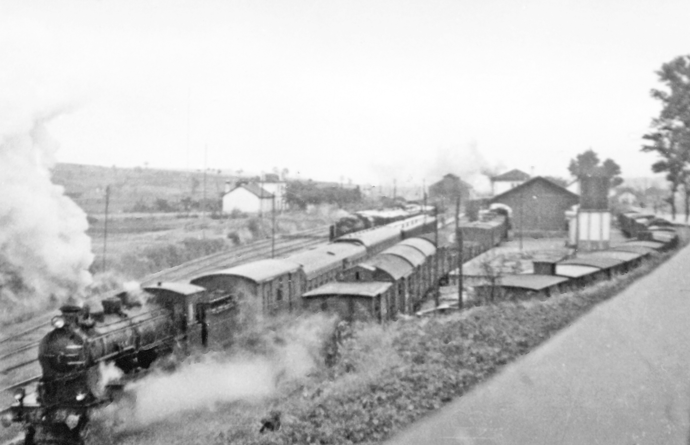 General scene northward at Guarda (Beira Alta), 1956: afternoon train for Lisbon leaving - steam-hauled.